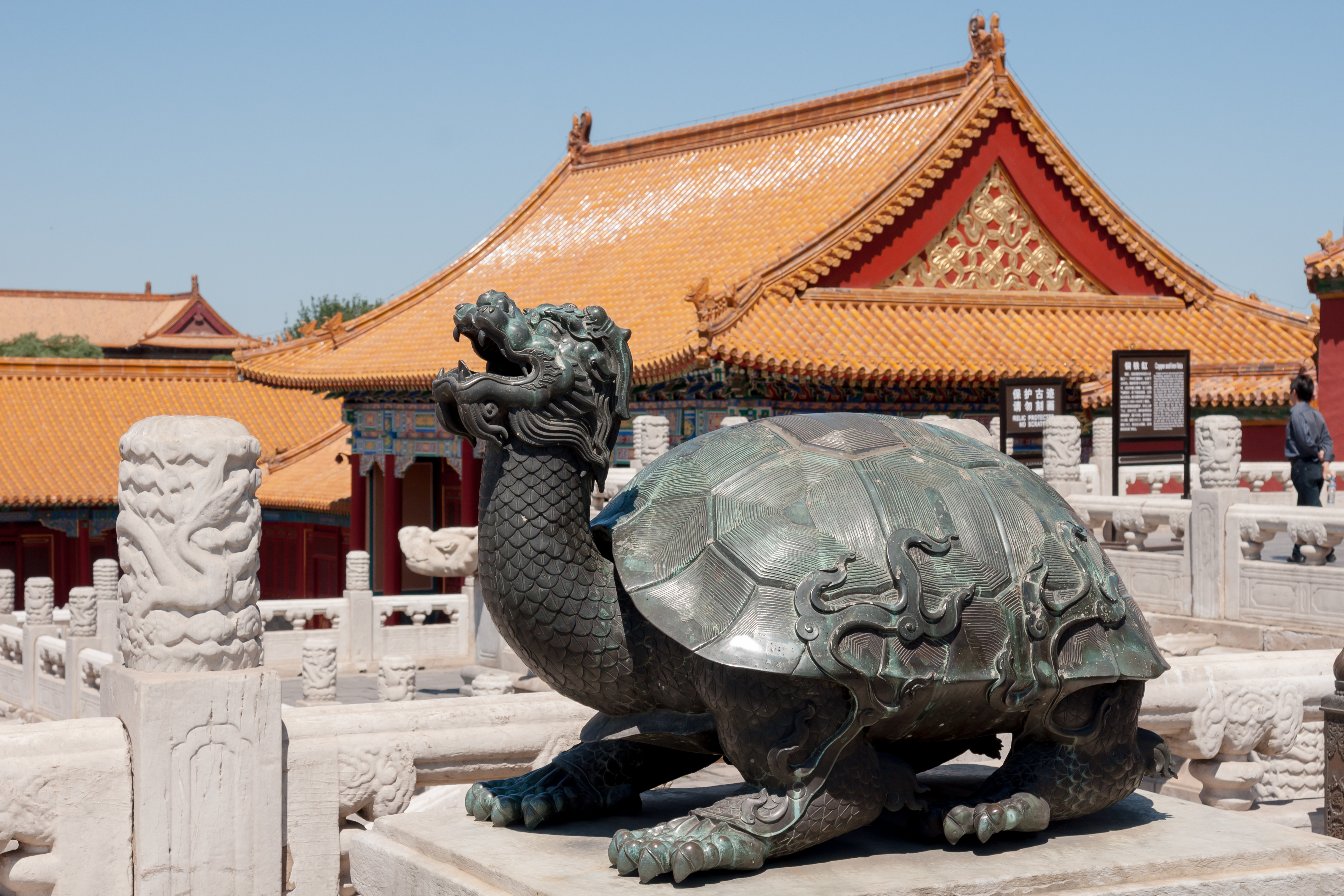 Beijing, China: Tortoise in the Forbidden City